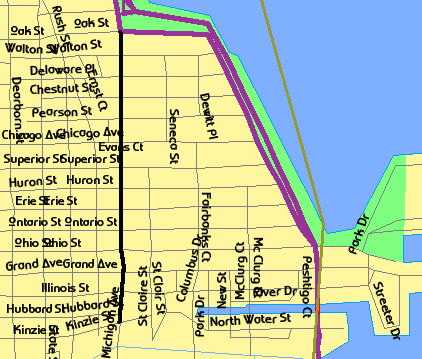 Map of the location of Magnificent Mile